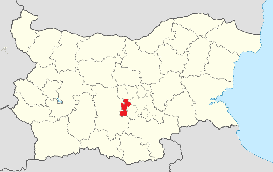 Location map of Bratya Daskalovi Municipality within Bulgaria and Stara Zagora Province